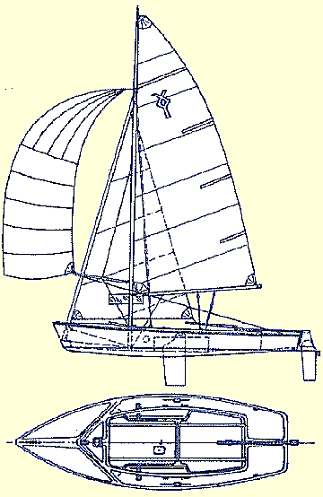 Boat sides view - kimmswordboat (a drawing off "Ixylon") own drawing (Botaurus-stellaris)